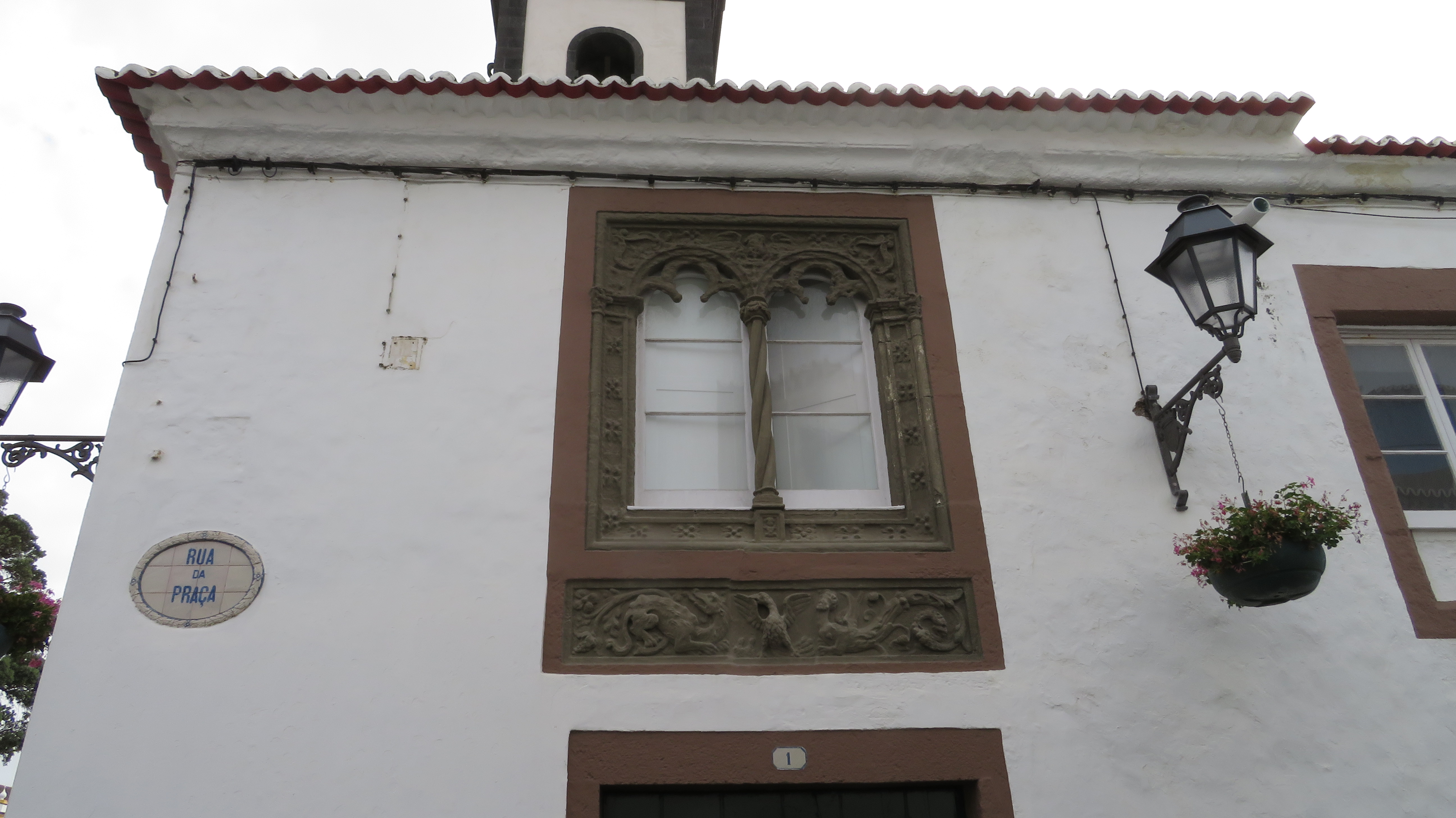 Window of the City Hall, Ribeira Grande, Island Sao Miguel, Azores, Portugal